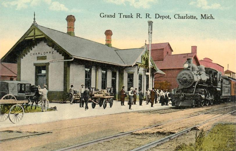 Grand Trunk Railway Depot, Charlotte, Michigan; from c. 1912 postcard. The Chicago and Grand Trunk Railway (a Grand Trunk Railway predecessor) built the brick station in 1885.